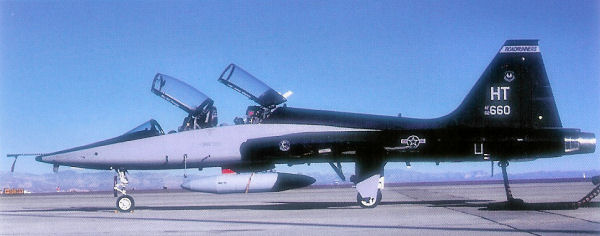 AT-38B 62-3660 of the 586th Flight Test Squadron (AFMC) at Holloman Air Force Base, New Mexico.